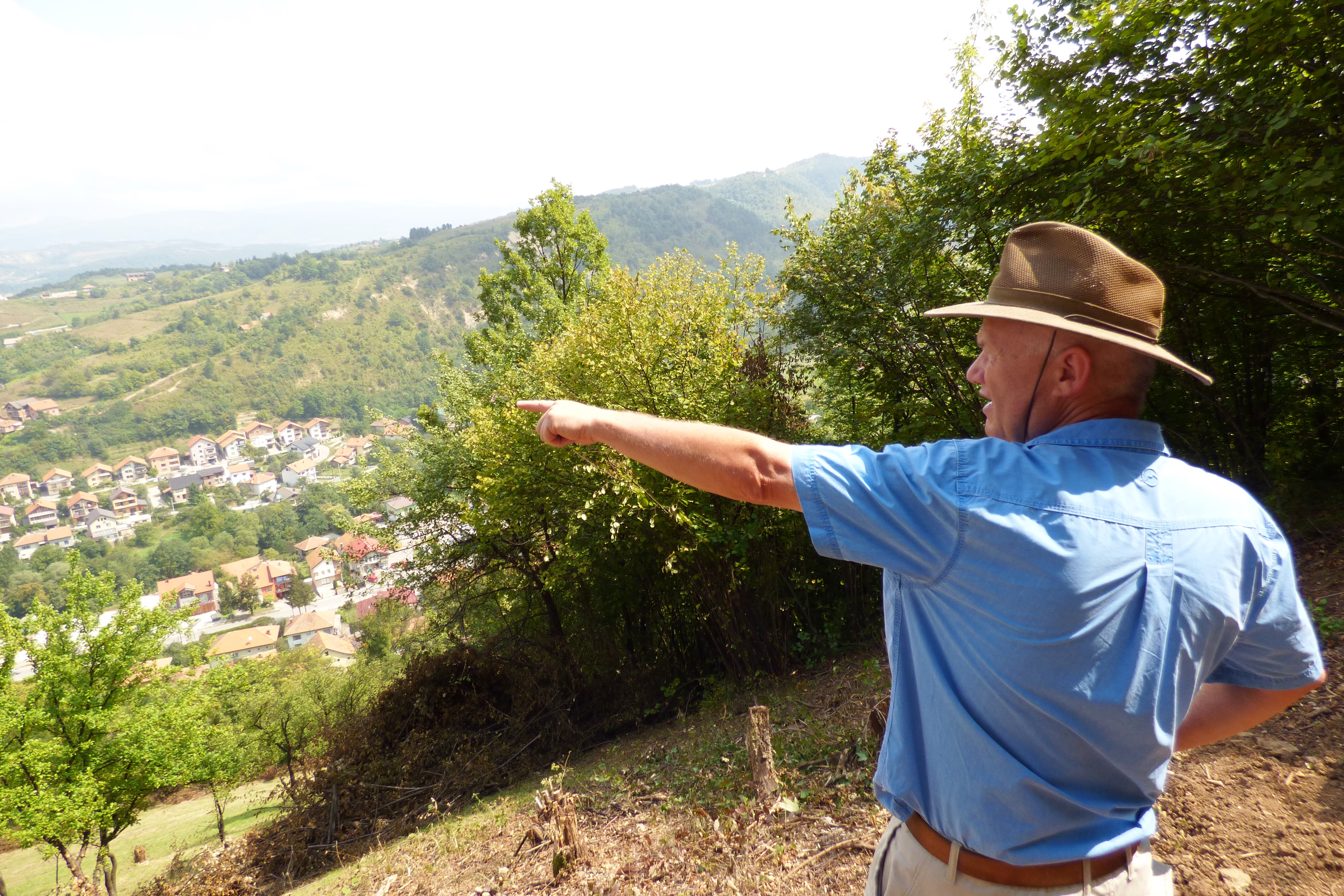 Photo by Dr. Semir Osmanagic at the site of the Bosnian Pyramid Valley July 2019 Visoko Bosnia and Herzegovina